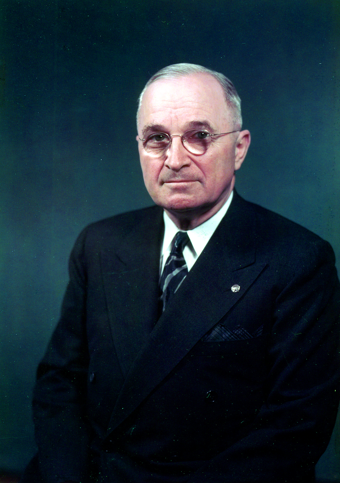 Portrait of President Harry S. Truman (ca. 1947).